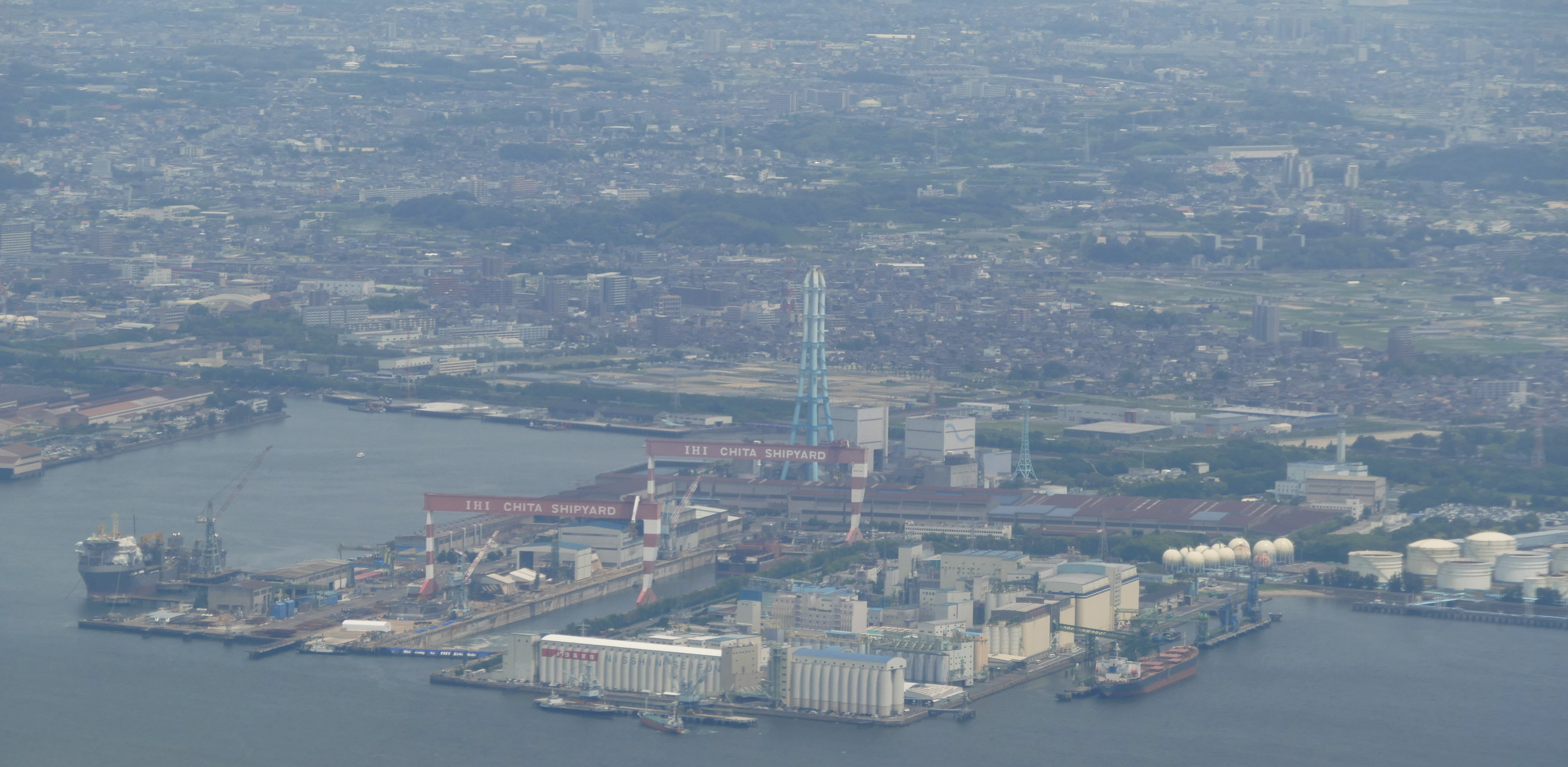 Chita Daini Thermal Power Station as seen from the sky,Aichi prefecture, Japan